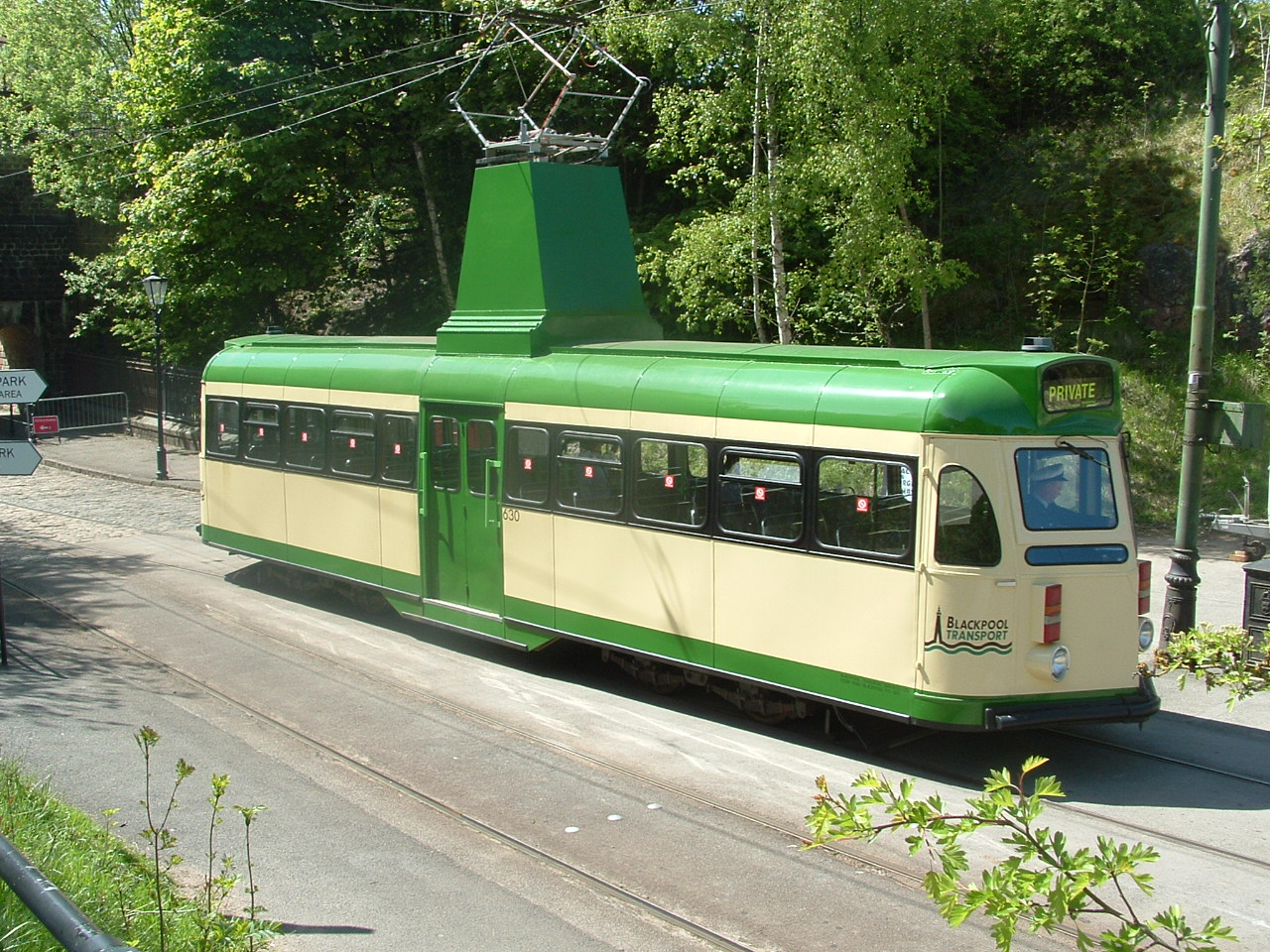 Blackpool Transport Brush Railcoach tram No.630. These trams were built in 1937-38 to supplement the existing streamlined fleet. After the wholesale destruction of the original English Electric Railcoaches from the late 60's to the early 70's, the Brush cars were the only streamlined single deck cars left in Blackpool. This one, 630, has a relatively complex history. In the 1990's it was modernised with bus-type seating and windows, rubber bumpers, modern indicator lights and a all-enclosed pantograph tower which enclosed low-voltage equipment. It soldiered on in Blackpool until the end of the traditional tramway in November 2011, when it was repainted in to 1990's fleet livery and donated to the National Tramway Museum, Crich. It entered service there in May 2012 and has operated regularly there since.